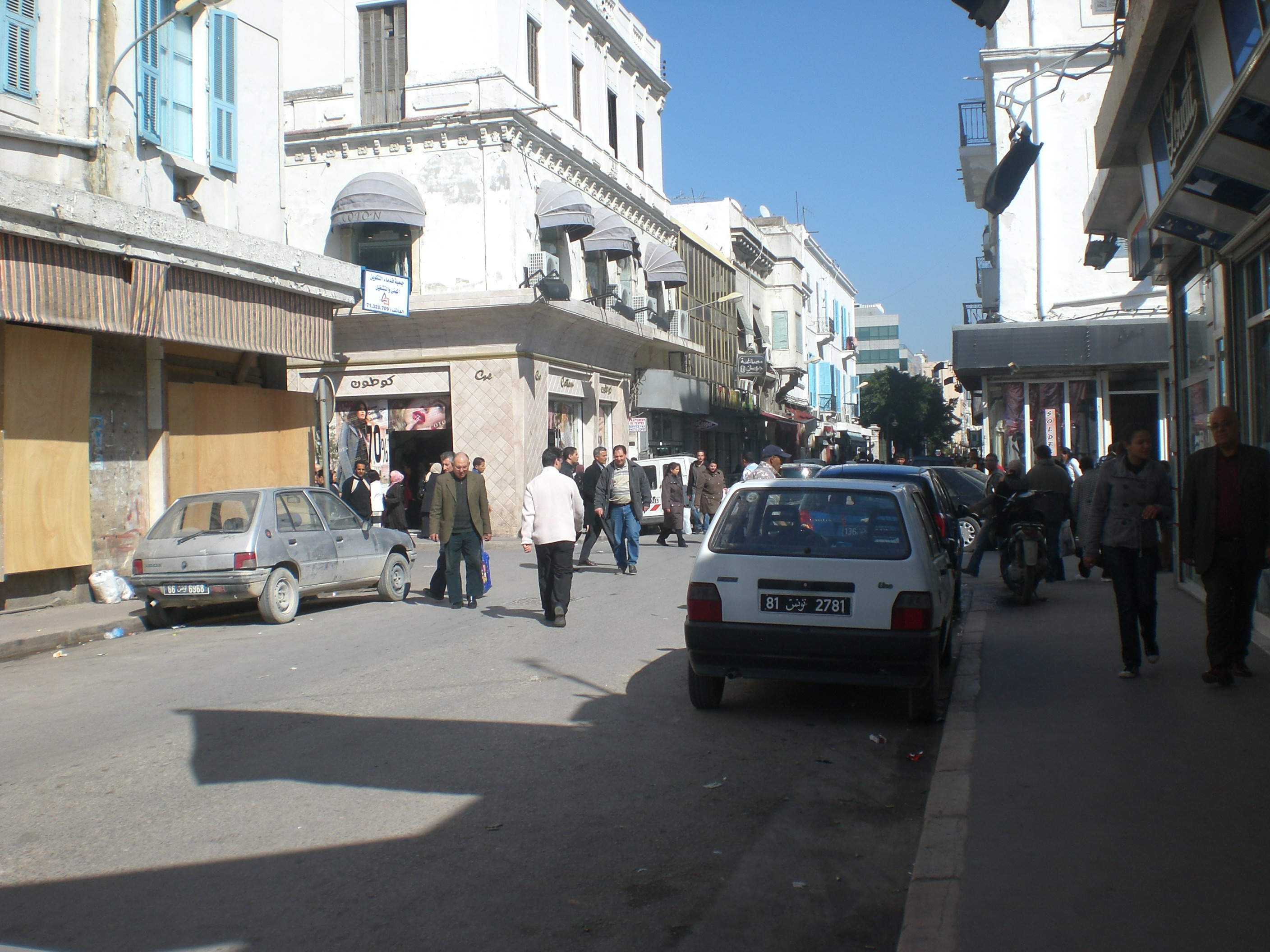 Rue de Yougoslavie in Tunis